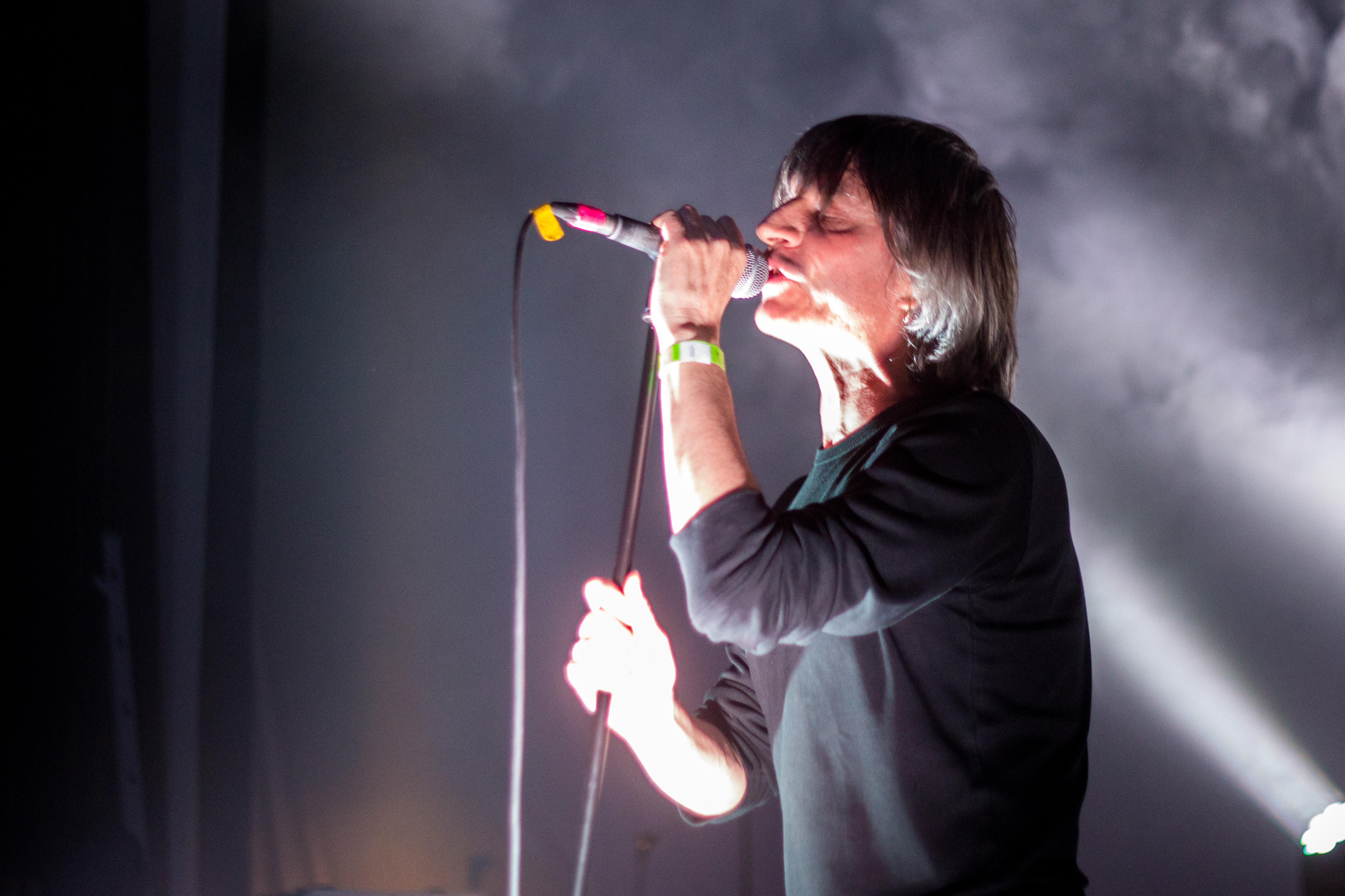 Franz Treichler of The Young Gods performing at SKIF 2014